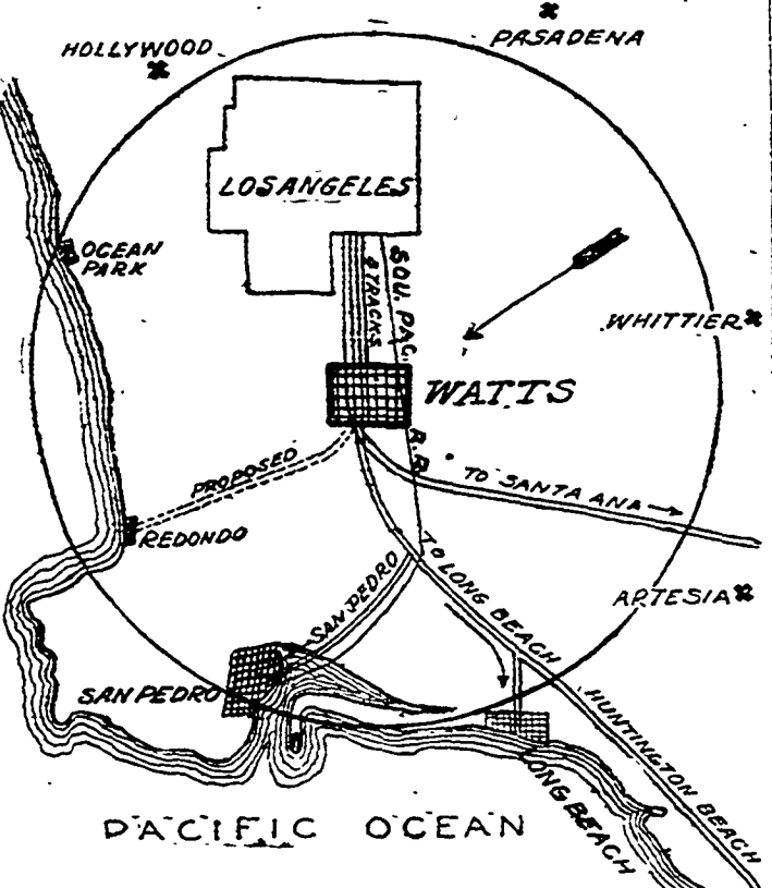 This 1910 map of Los Angeles, California, area centered on the city of Watts, was published in the Los Angeles Times on September 11, 1910, to illustrate a major feature story on Watts.